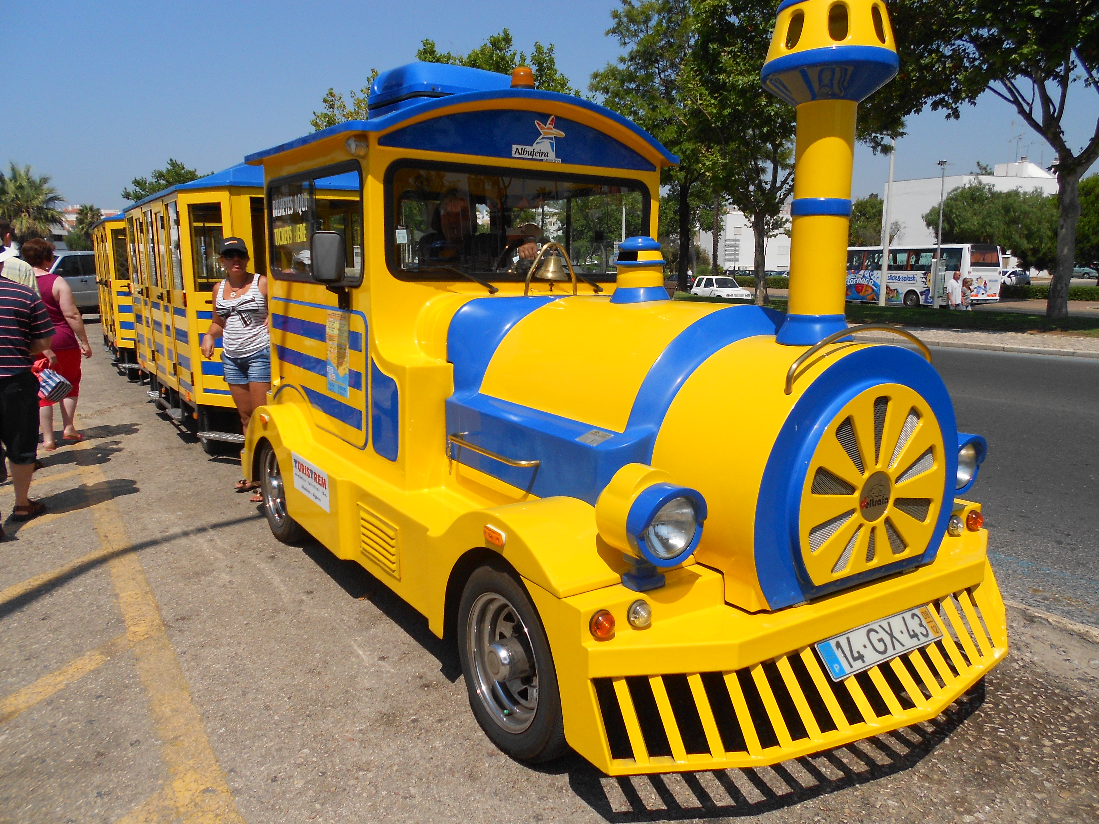 This is a photo taken by myself of a trackless train in Albufeira, Portugal.